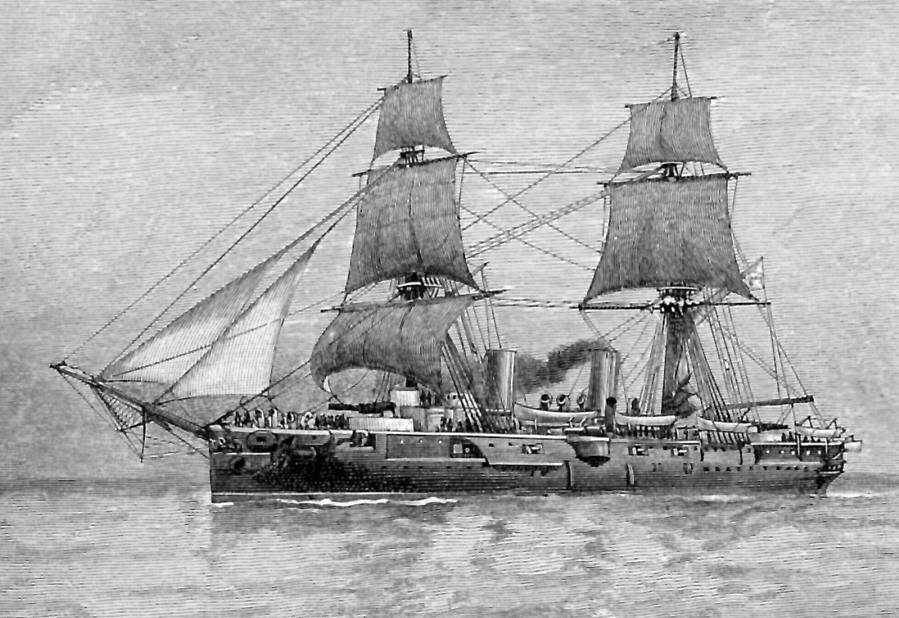 Illustration depicting British cruiser HMS Warspite.